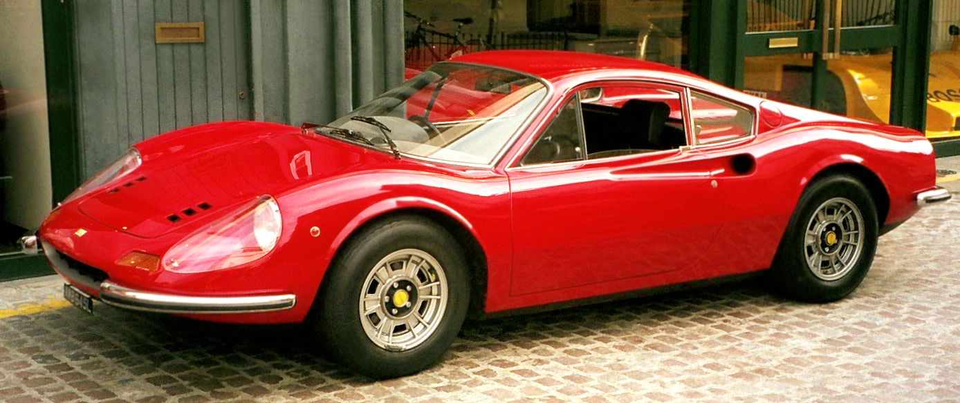 Vintage car sold at Coys of Kensington, London